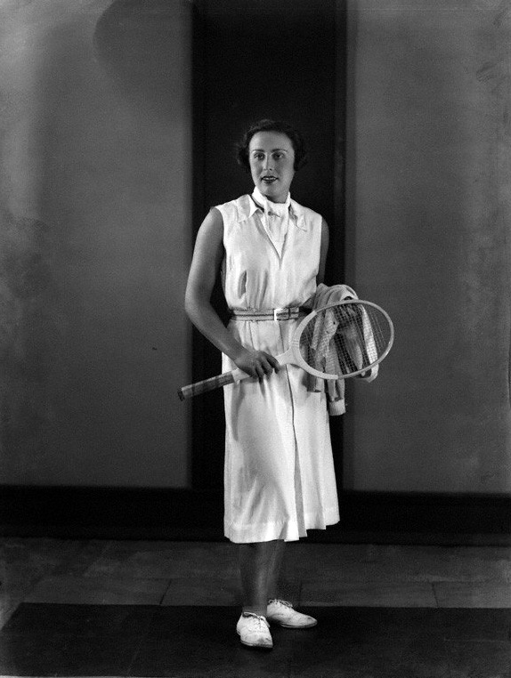 English squash and tennis player Susan Noel by Bassano, whole-plate film negative, 16 May 1935